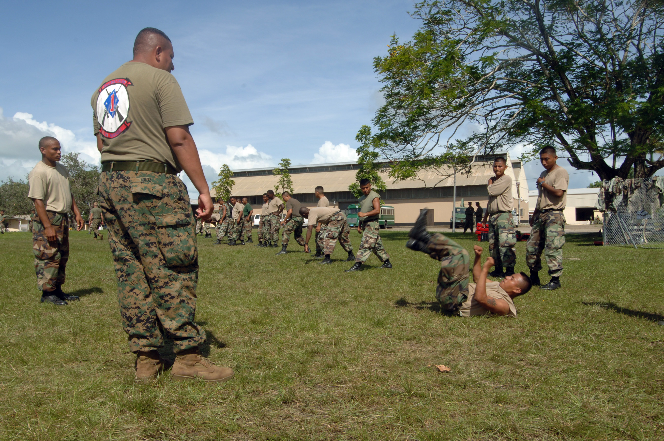 BELIZE CITY, Belize (Aug. 28, 2007) - Members of the Belize Defense Force are instructed on controlled falling techniques by U.S. Marines assigned to a Mobile Training Team during small unit tactics training at the Price Barracks. Task Group 40.9 is deployed under the operational control of U.S. Naval Forces Southern Command (NAVSO) for the Global Fleet Station (GFS) pilot deployment to the Caribbean Basin and Central America. This deployment is designed to validate the GFS concept for the Navy and support NAVSO objectives for its area of responsibility by enhancing cooperative partnerships with regional maritime services and improving operational readiness for the participating partner nations. U.S. Navy photo by Mass Communication Specialist 1st Class David Hoffman (RELEASED)